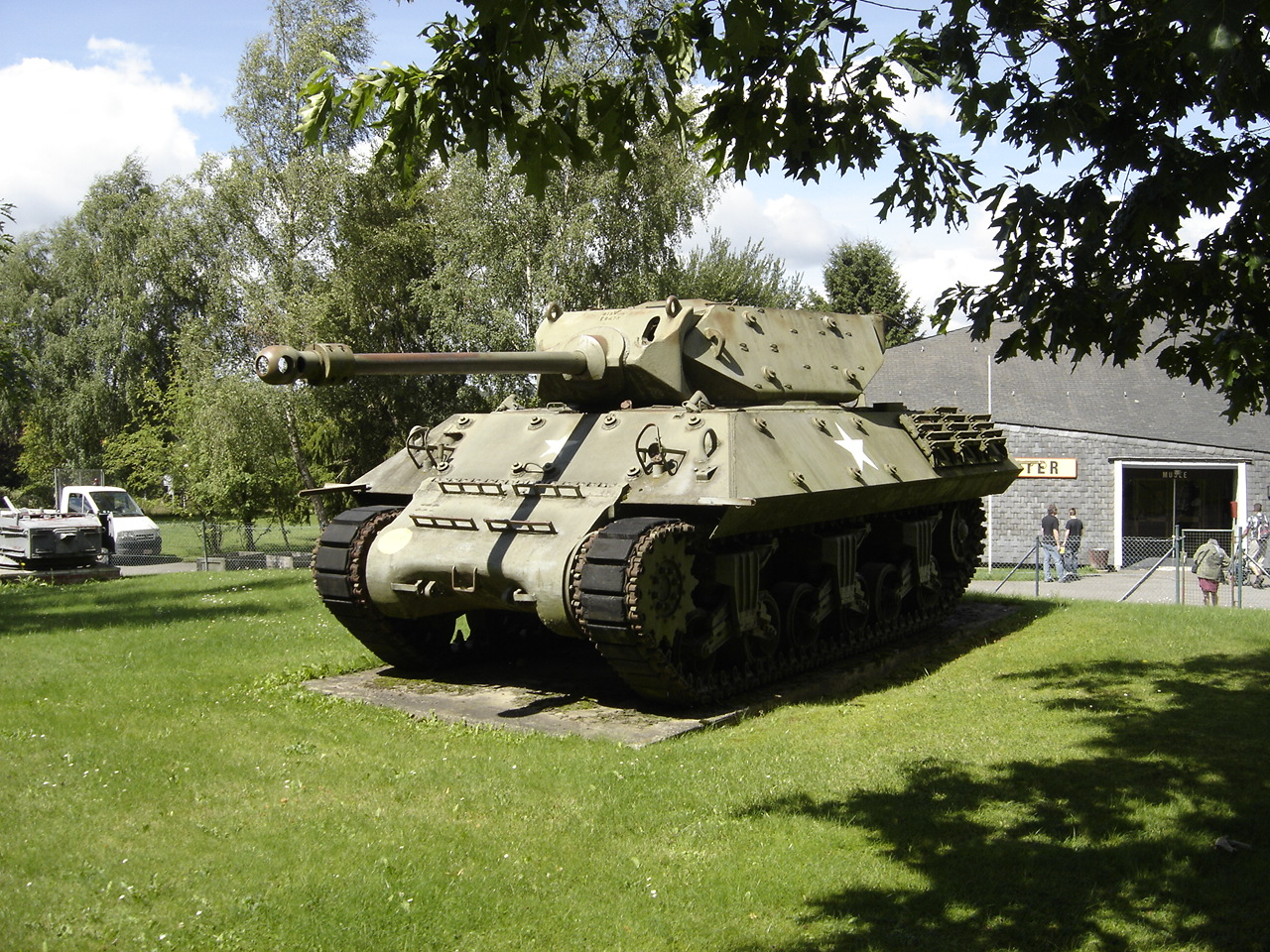 M10 Achilles self-propelled gun equipped with British Ordnance QF 17-pounder on display outside the Bastogne War Museum near the Mardasson Memorial in Belgium (August 2010)